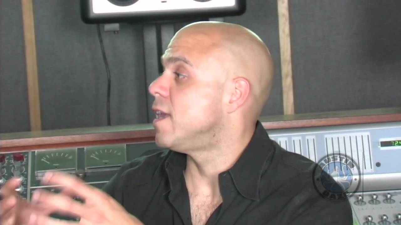 Carlos Sosa of Grooveline Horns discusses musician rights.